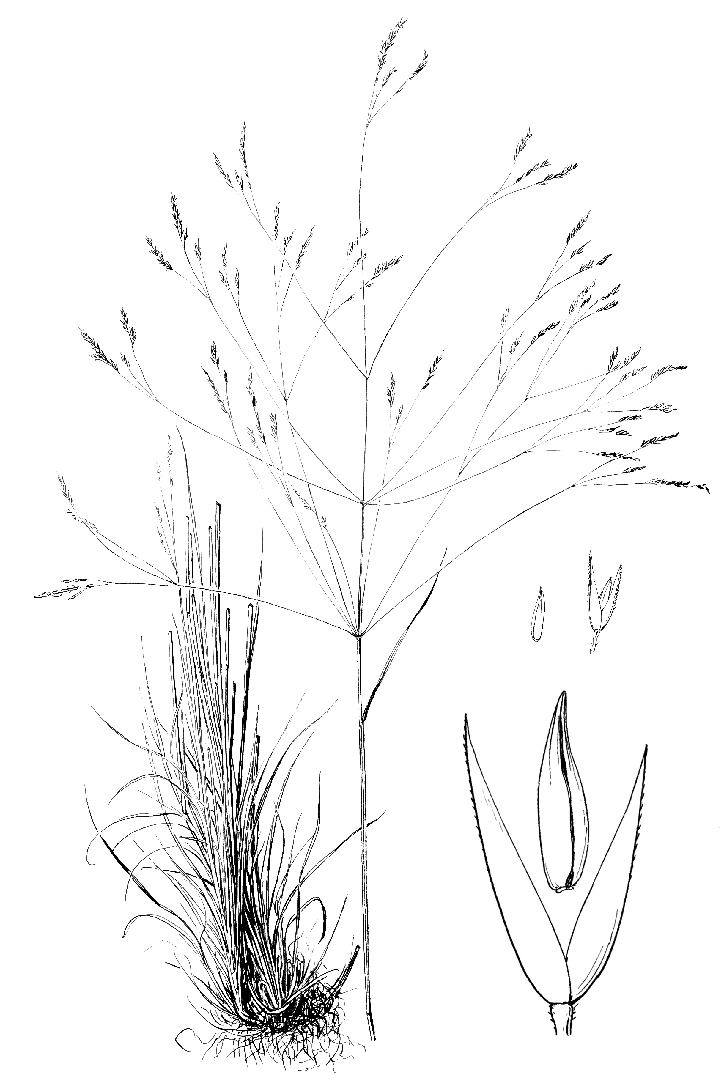 Drawings of Agrostis hyemalis (Walter) Britton, Sterns & Poggenb. - winter bentgrass - drawn for Albert S. Hitchcock, Manual of the grasses of the United States, fig. 686 in 1935 edition, and fig. 488 in 1950 (rev. Chase) edition. Large glume & floret in lower right are from Chase's 1922 First book of grasses. 1935 caption reads: Figure 686.--Agrostis hyemalis Plant, 1/2 X; [small] glumes and floret, X 5. (Deam 6514, Ind.) 1922 caption reads: Fig. 36. Spikelet of Agrostis hiemalis.